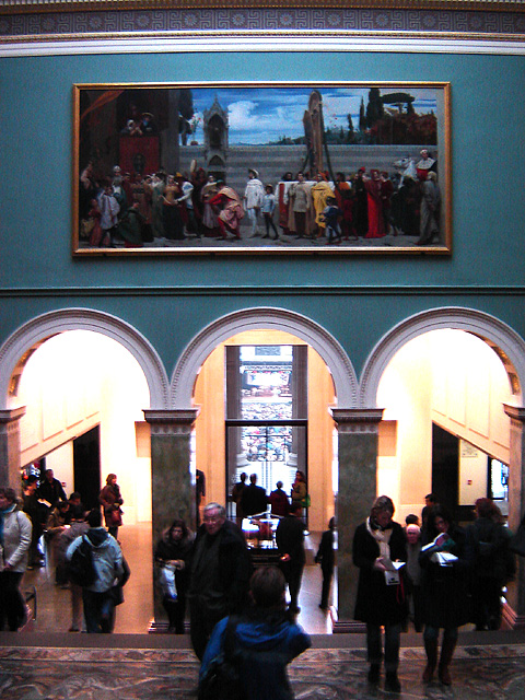 National Gallery Interior (Russian Festival visible in Trafalgar Square through main entrance), Westminster, London. 14 January 2006. Photographer: Fin Fahey